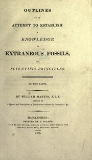 Outlines of an attempt to establish a knowledge of extraneous fossils on scientific principles In two parts / By William Martin. Published 1809